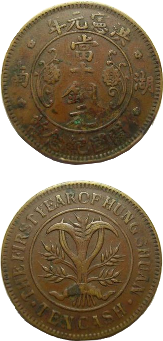 Ten cash coin from Yuan Shikai's short-lived Empire of China (1915–1916). The English reverse reads "First Year of Hung Shuan" and "Ten Cash." The Chinese obverse reads "洪憲元年" (Hóngxiàn Yuán Nián=Hongxian Year 1, Hongxian being Yuan Shikai's era name), "開國紀念幣" (Kāi Guó Jìniànbì=coin commemorating the establishment of the state), "湖南" (Húnán=Hunan (province)), and 當十銅元 (Dāng shí tóng yuán=value of ten copper yuan or cash)